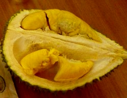 A half segment of an open durian, with several embedded pieces of seeds wrapped in edible pulp. Variety: "Mao Shan Wang (Cat Mountain King)", from Peninsular Malaysia.